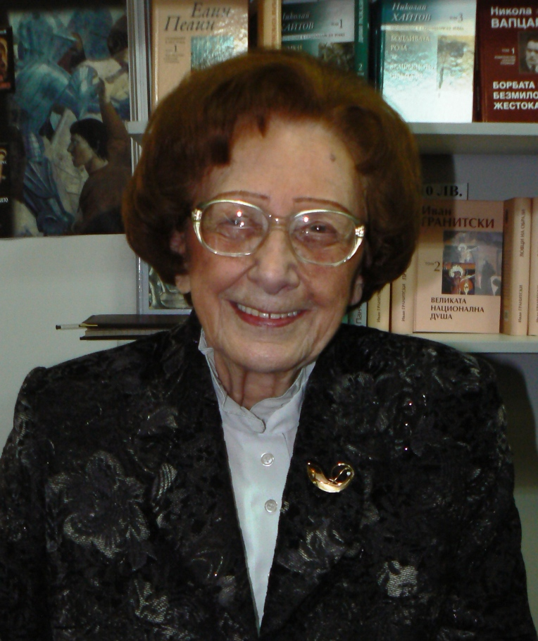 Bulgarian writer of children literature Leda Mileva